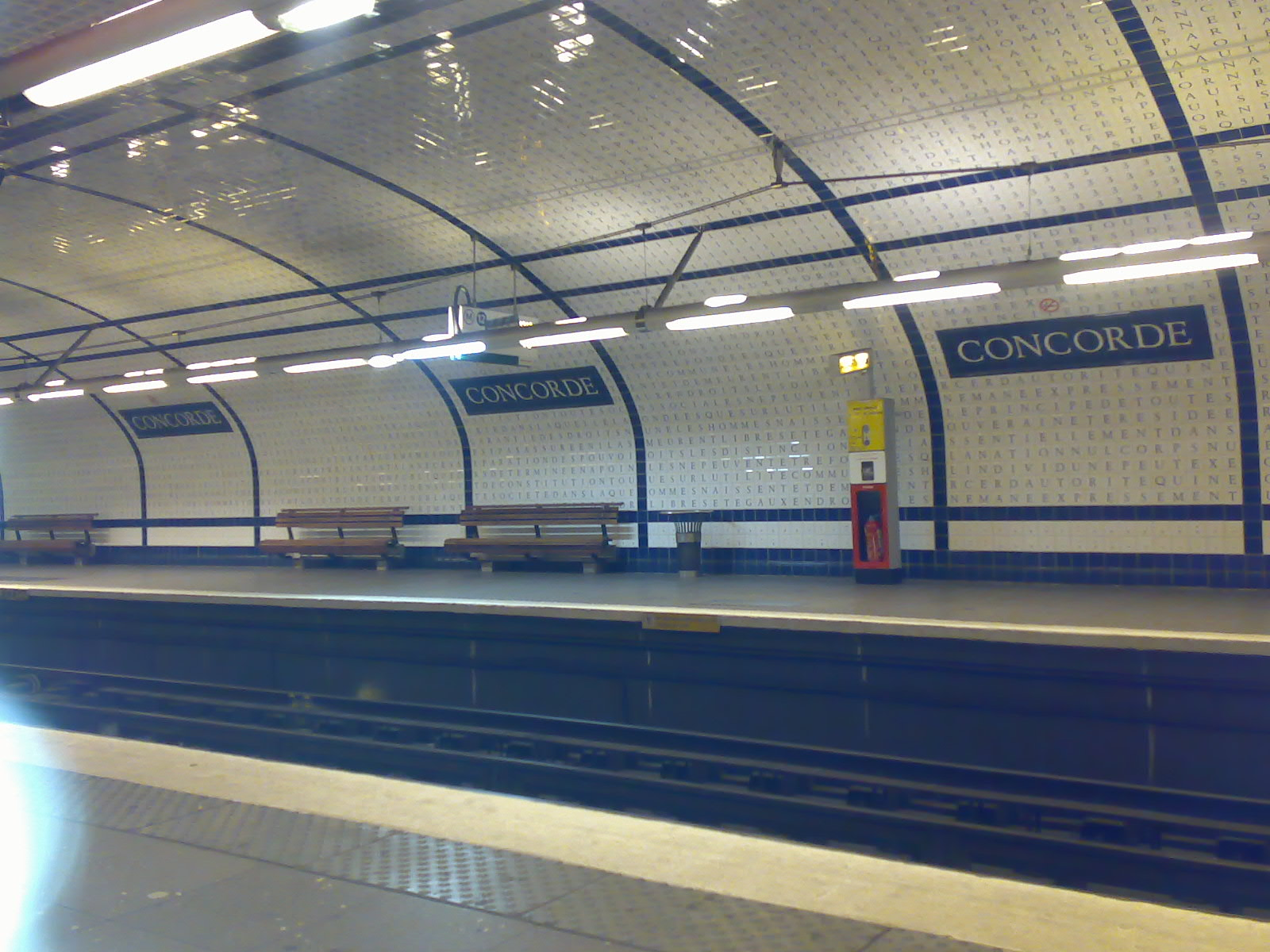 Concorde station (Ligne 12) on the Paris Métropolitain network.